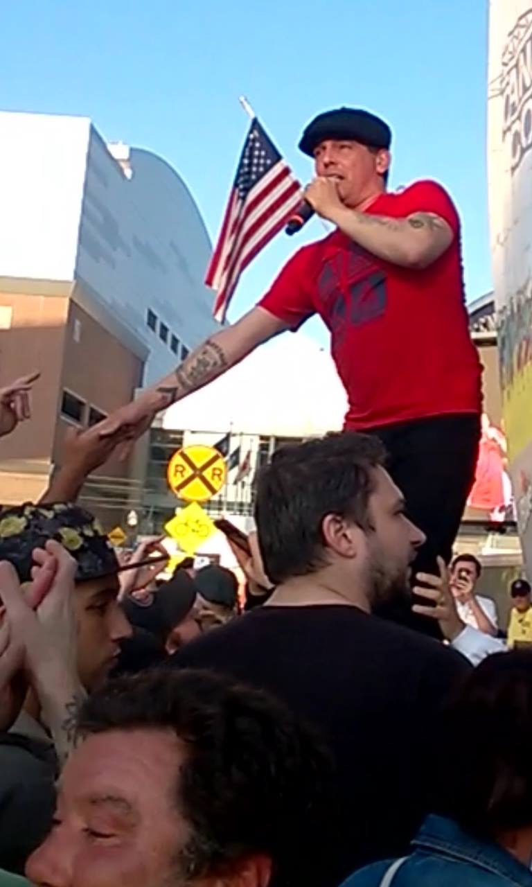 Mike McColgan performing with the Street Dogs at the Buffalo Harbor on July 9th, 2015, In support of The Mighty Mighty Bosstones.